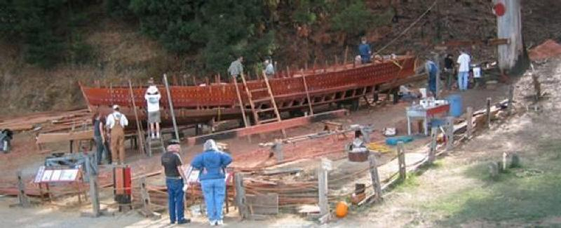 The traditional Chinese junk Grace Quan under construction in 2003 at China Camp State Park in San Rafael, California.